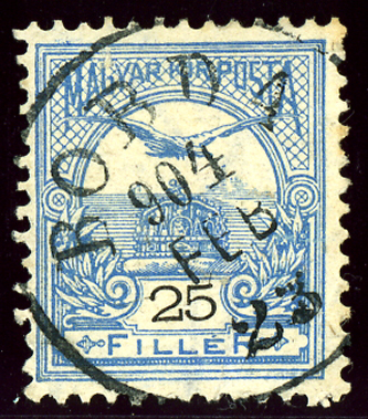 Kingdom of Hungary 25 fillér blue stamp, cancelled in 1904 at Bobda (Cenei), Timis County (Banat, Romania). Michel N°62A.